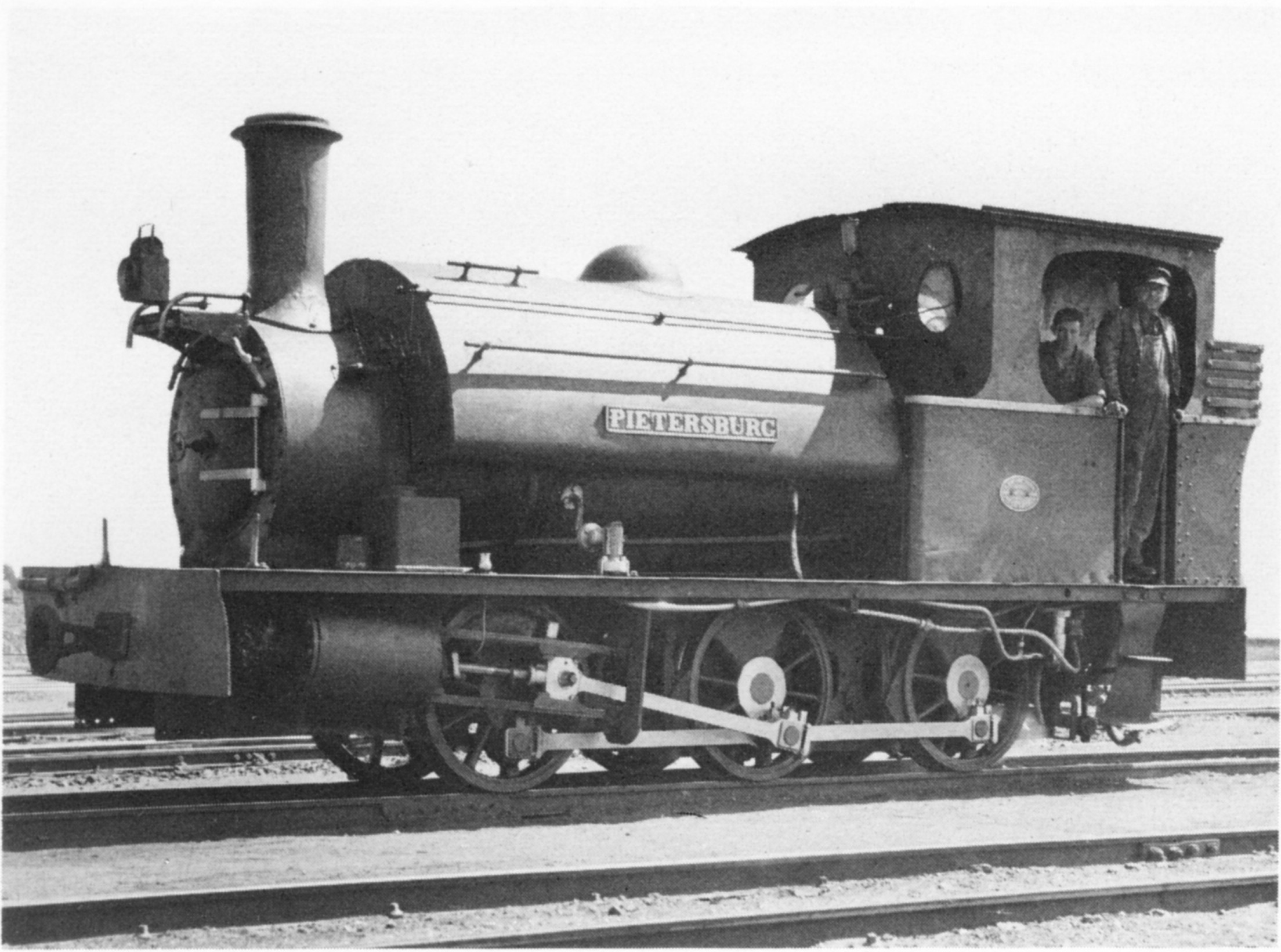 Pretoria-Pietersburg Railway 26 Tonner "Pietersburg" (0-6-0ST)